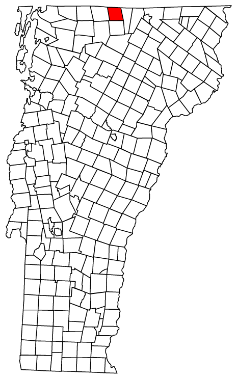 Description: Map of Vermont towns with Jay highlighted Source: Map created by Jared C. Benedict on 26 March 2004. Copyright: © Jared C. Benedict.